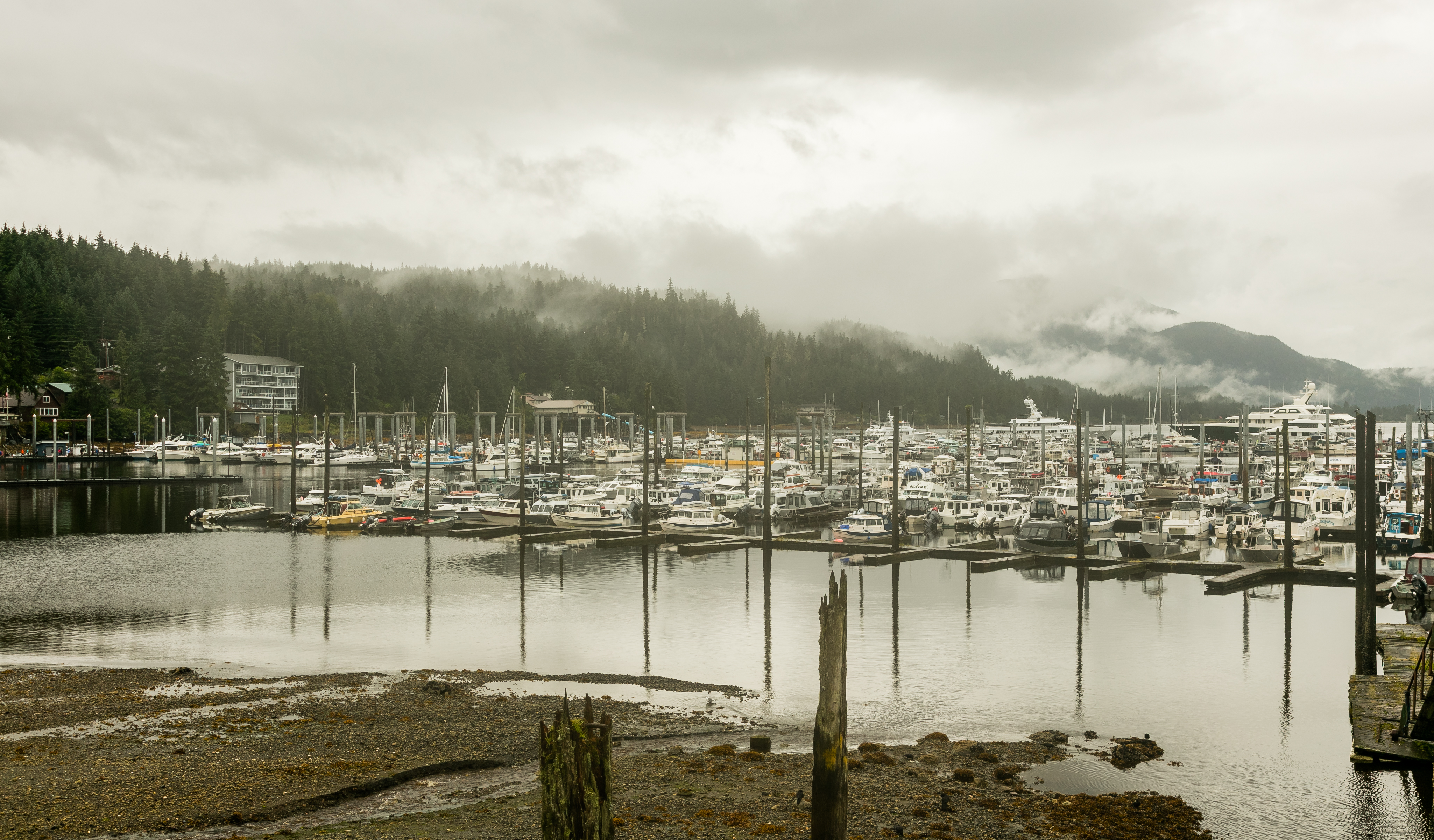 Port of Juneau, Alaska, United States